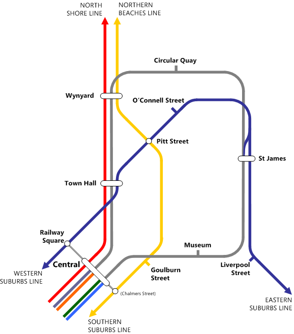 Pictorial map of the underground railways proposed to be constructed in the Sydney CBD by Dr JJC Bradfield in the early 20th Century Commons:Category:Maps of CityRail Sydney